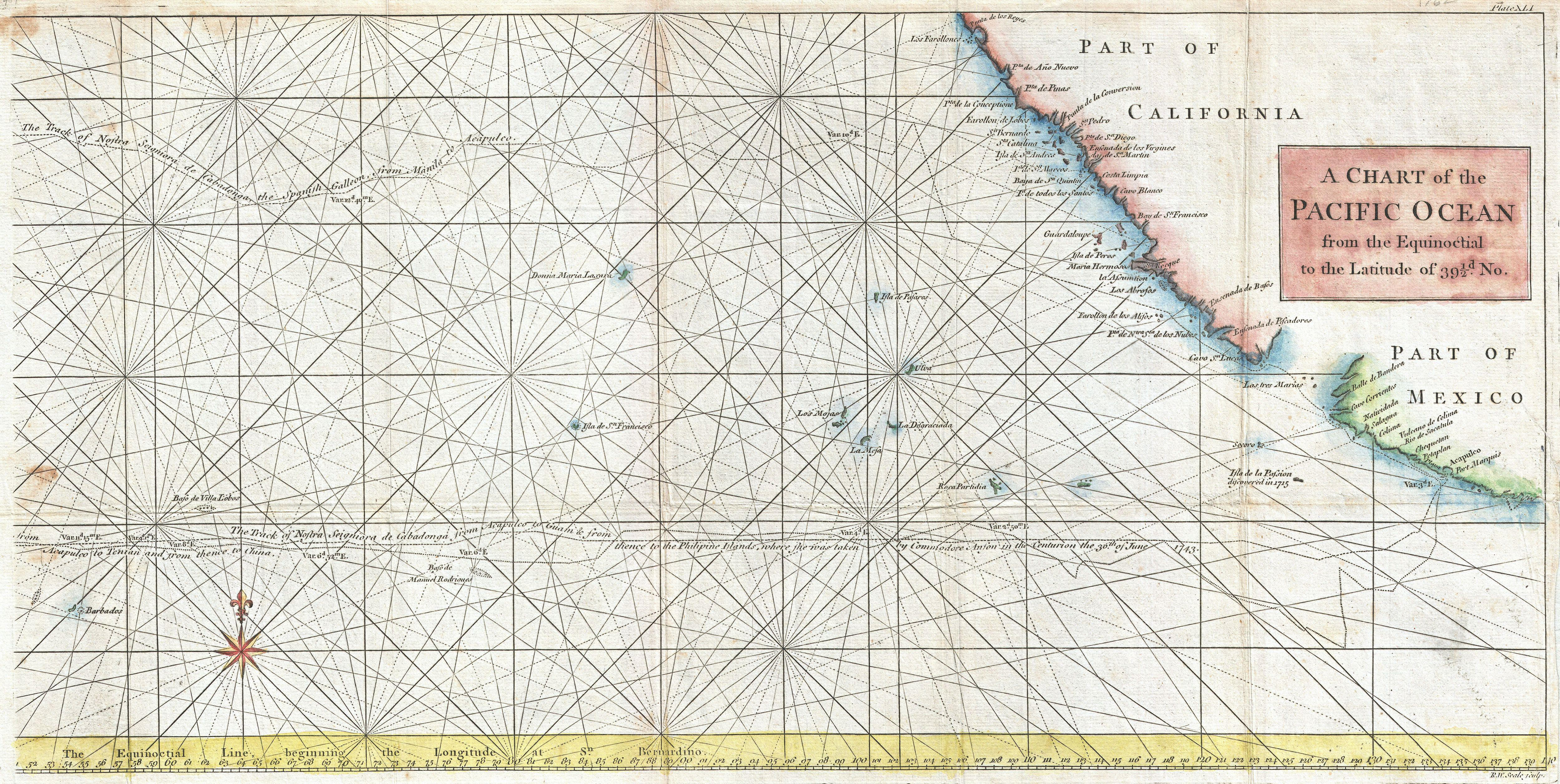 This is a rare 1748 nautical chart of the Pacific Ocean by George Anson and R. W. Seale. Chart depicts the trade routes used by Spanish Galleons from Acapulco, Mexico heading towards Manila in the Philippines. In particular, this chart depicts the travels of the Spanish Nostra Seigniora de Cabadonga and the British Navy Commodore George Anson. Anson lead an ill-equipped expedition into the Pacific with the mission to attack Spanish dominions in South America. Though he failed in this mission, Anson did succeed in capturing the Spanish treasure galleon off Cape Espiritu Santo on June 20, 1743. The Spanish galleon was loaded with gold, silver and, more importantly, nautical charts depicting the trade routes used by Spanish Galleons between Mexico and Manila for the previous 200 years. This significant discovery allowed the British to disrupt Spain’s trade in the Pacific and thus economically handicap the Spanish dominance of the New World. Following his capture of the Nostra, its treasures were paraded through the streets of London in no less than 32 wagons. Anson was hailed as a national hero. Beautifully details the Pacific Islands and much of the Mexican and California coast. Names numerous important destinations along the California coast including Cabo San Lucas, San Diego, and Acapulco. Rhumb lines throughout. Drawn by Seale and published as a supplement to the 1848 English edition of Anson’s important book A Voyage Round The World, In the Years MDCCXL, I, II, III, IV .